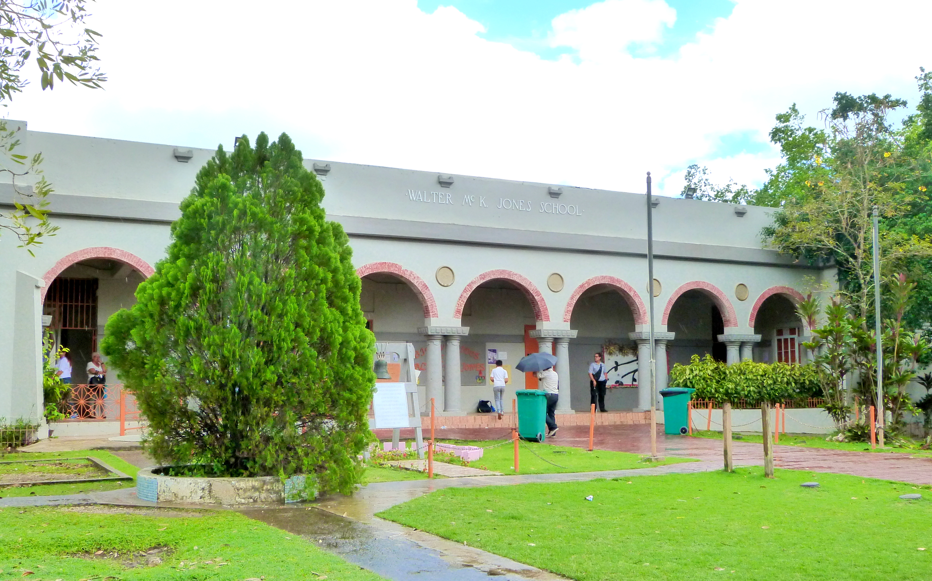 The historic Escuela Walter McK. Jones (built 1926), located at Calle Luis Muñoz Rivera #28 in Villalba, Puerto Rico, is listed on the U.S. National Register of Historic Places.